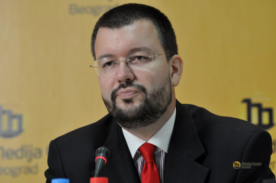 Čedomir Antić at the conference "Predstavljanje šestog redovnog Izveštaja o političkim pravima srpskog naroda u regionu", 2014-08-04